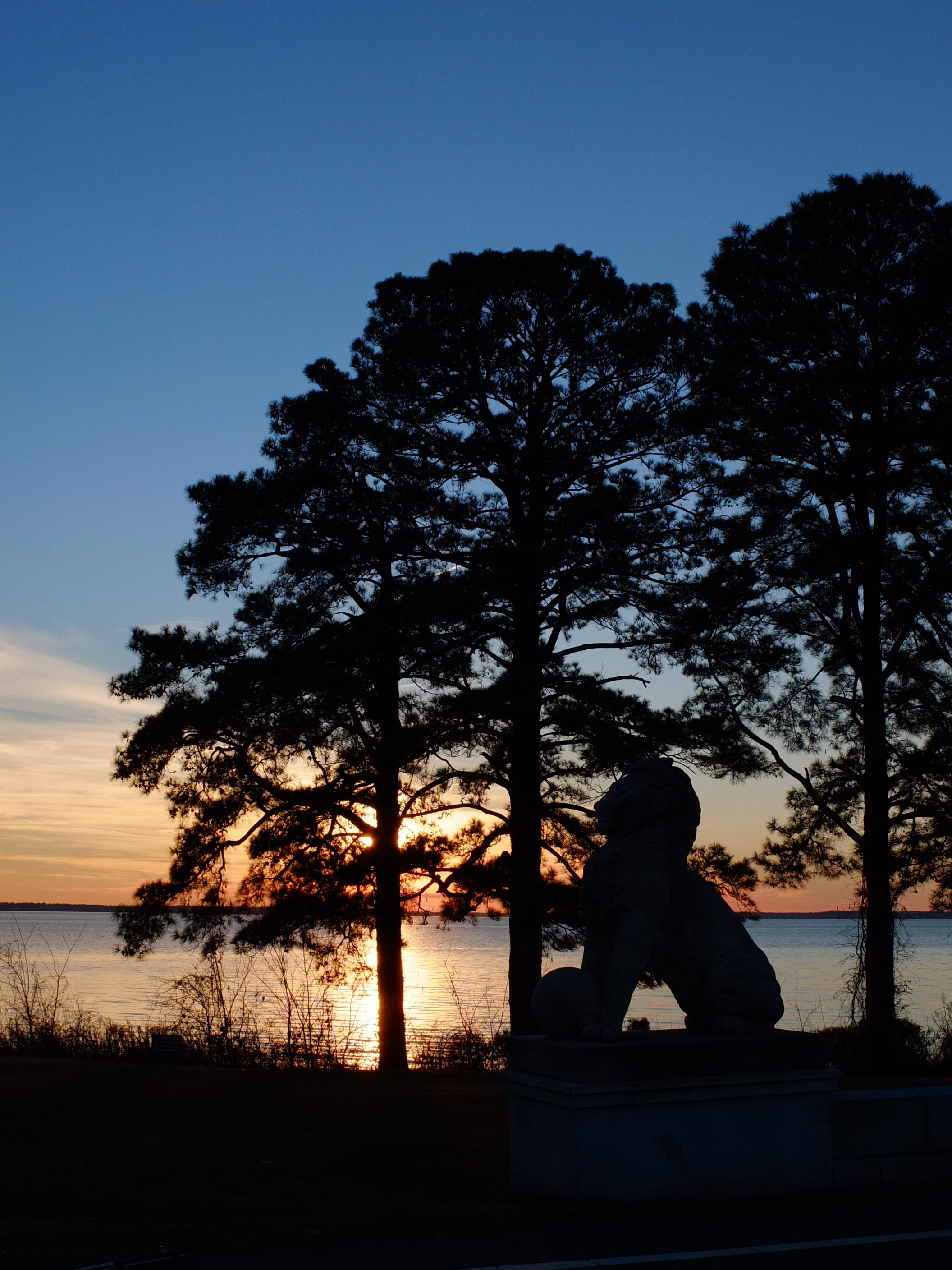 The sun sets over the James River, silhouetting one of the statues of the Lions' Bridge in Newport News, Virginia.